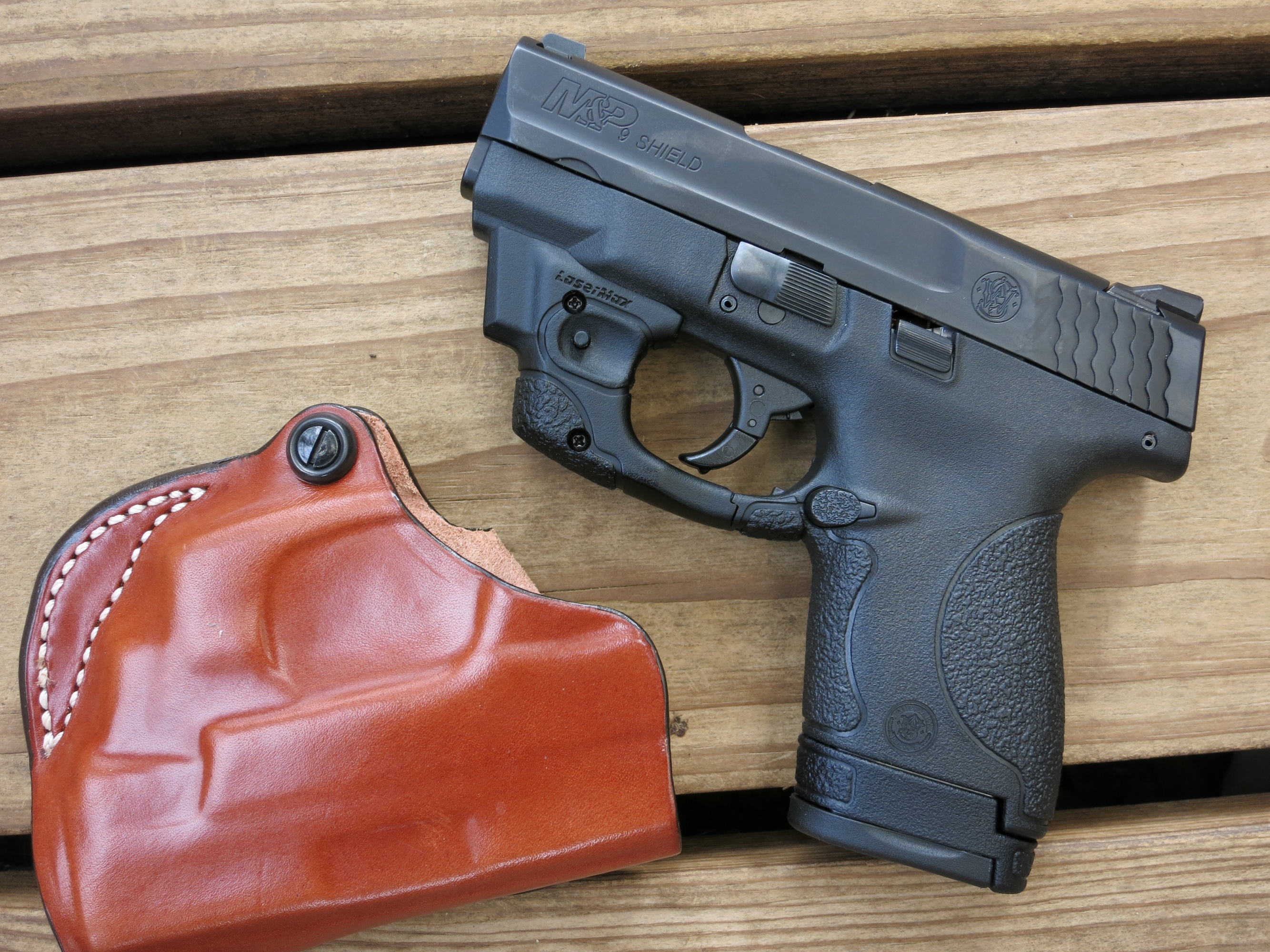 My Wife's pistol 9mm Made in the U.S.A.